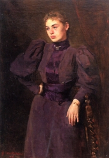 Painting of Frederika Wilhelmina van Wulfften Palthe-Broese van Groenou, Dutch pacifist and suffragist